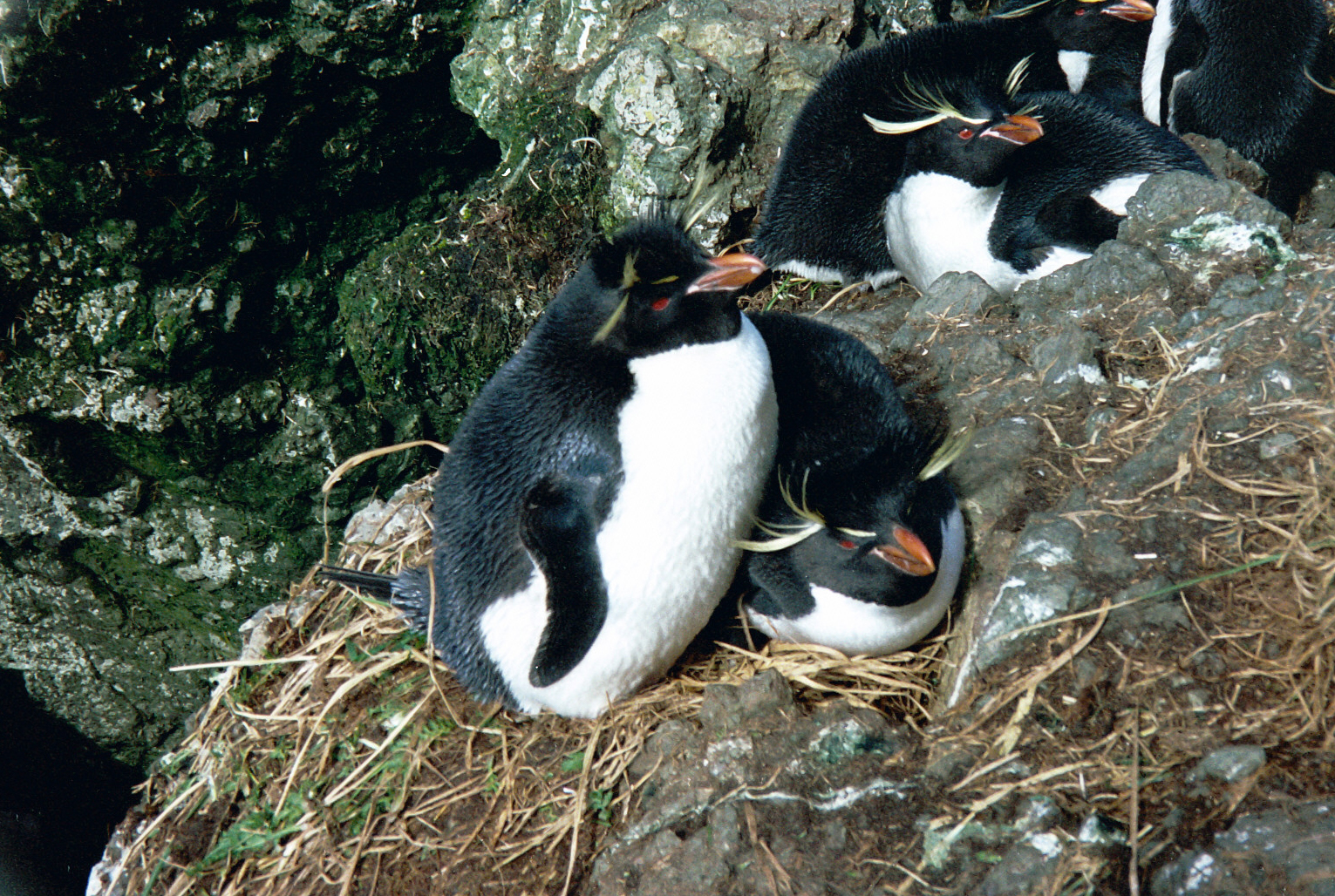 Rockhopper penguins at Garden Cove